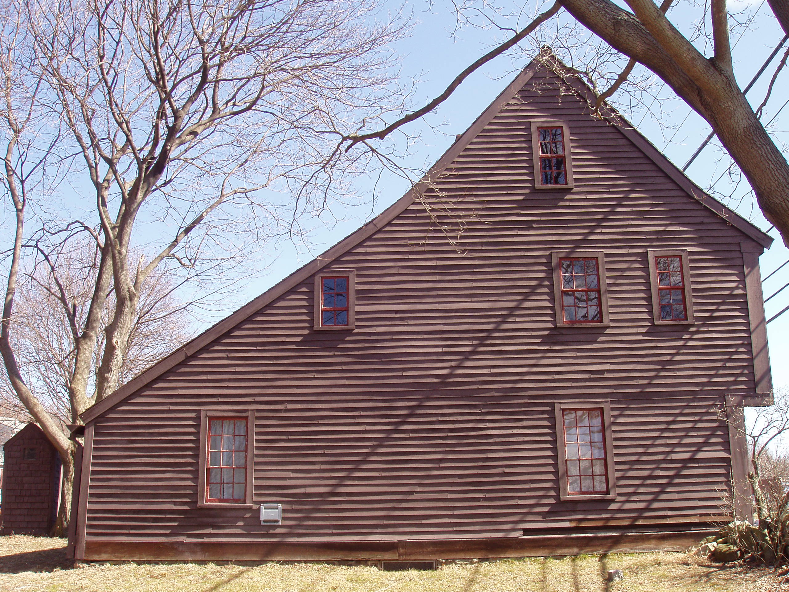 Boardman House - side view. This photograph was taken by me, in Saugus, Massachusetts, March 2006.